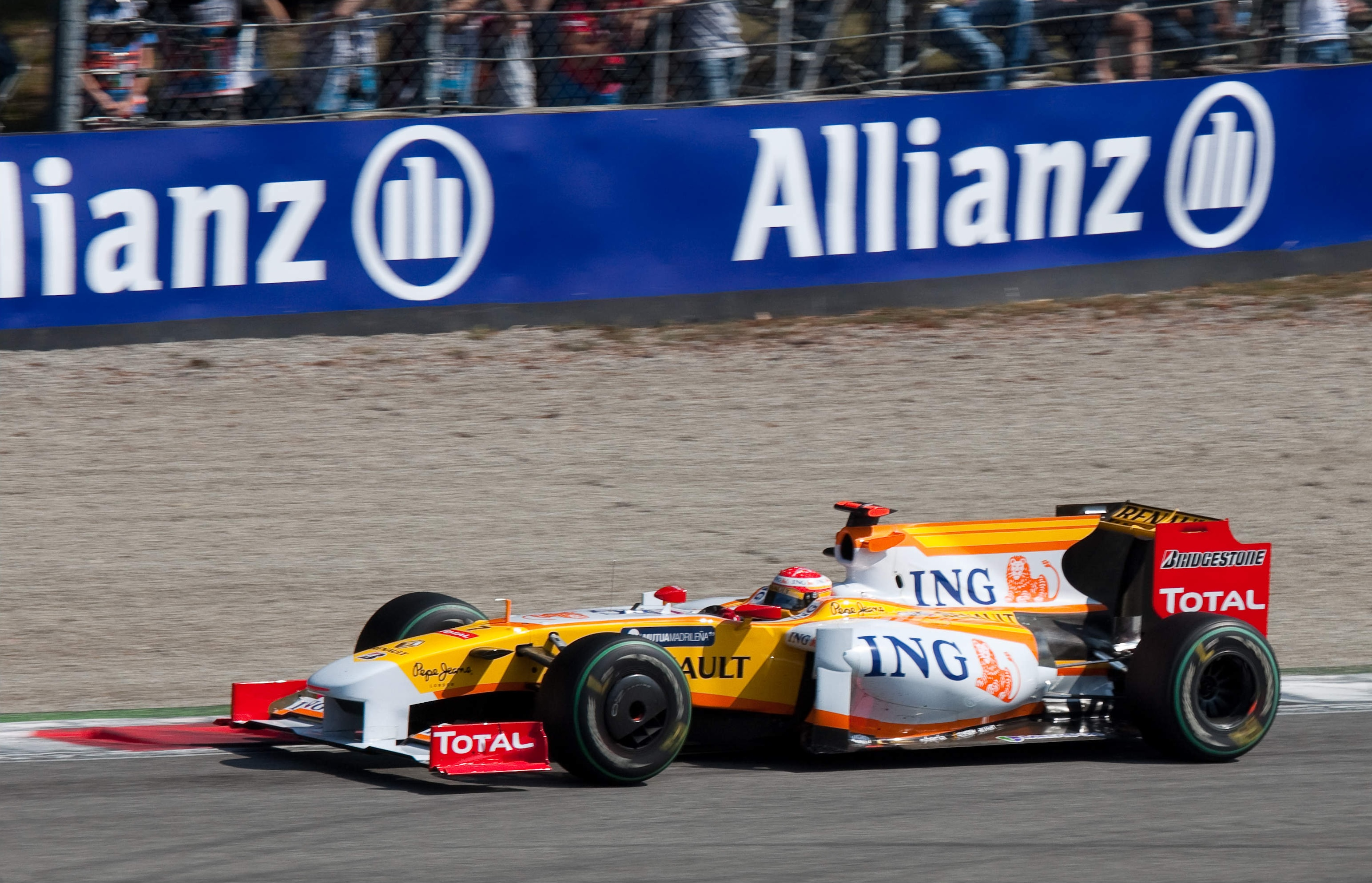 Fernando Alonso driving for Renault F1 at the 2009 Italian Grand Prix.